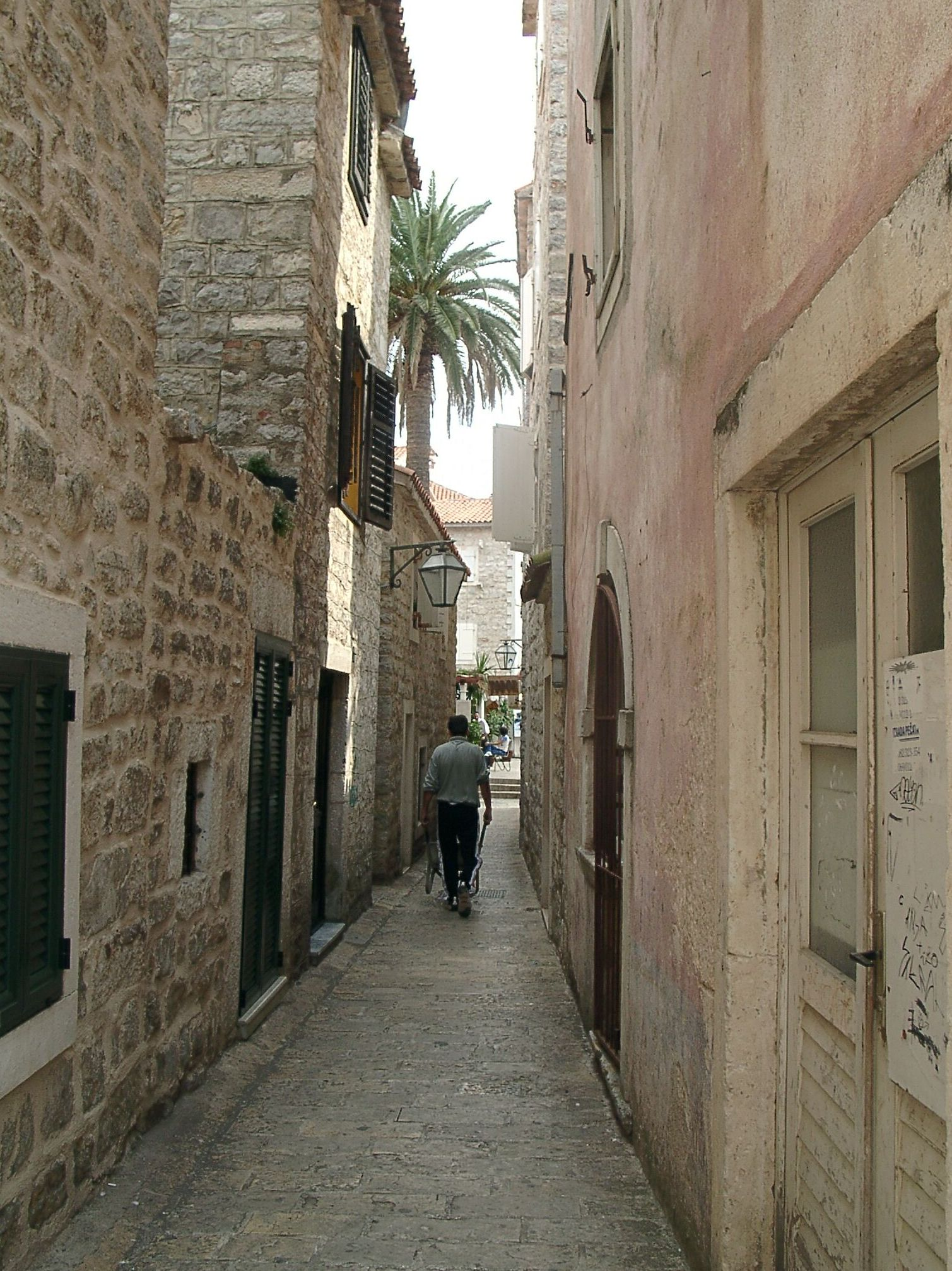 Old part of Budva